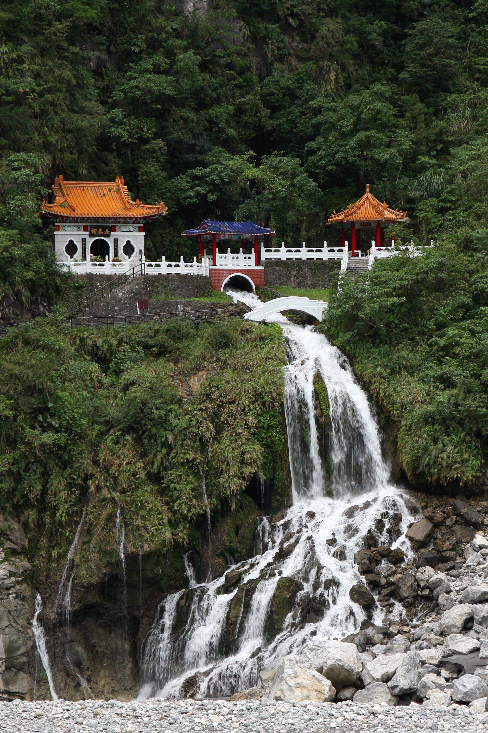 Chang Chun ("eternal spring") Shrine/长春祠 (pinyin:Chángchūn cí); Taroko National Park, Taiwan